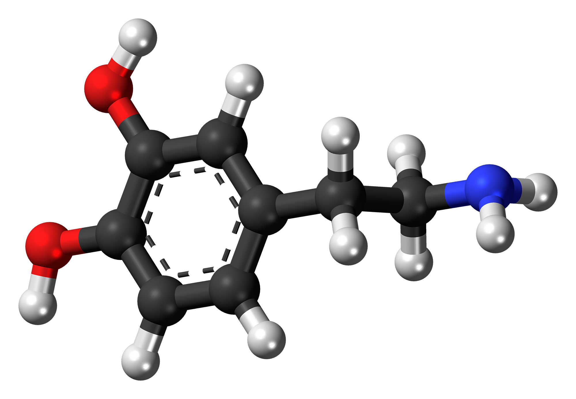 Ball-and-stick model of the dopamine molecule, a neurotransmitter that affects the brain's reward and pleasure centers. Colour code: Carbon, C: black Hydrogen, H: white Oxygen, O: red Nitrogen, N: blue